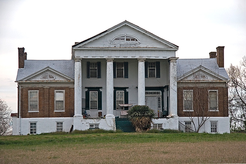 Located in Northwest Alabama, and built by Rev. Turner Saunders (Sanders) this old mansion is an excellent example of Palladian design.